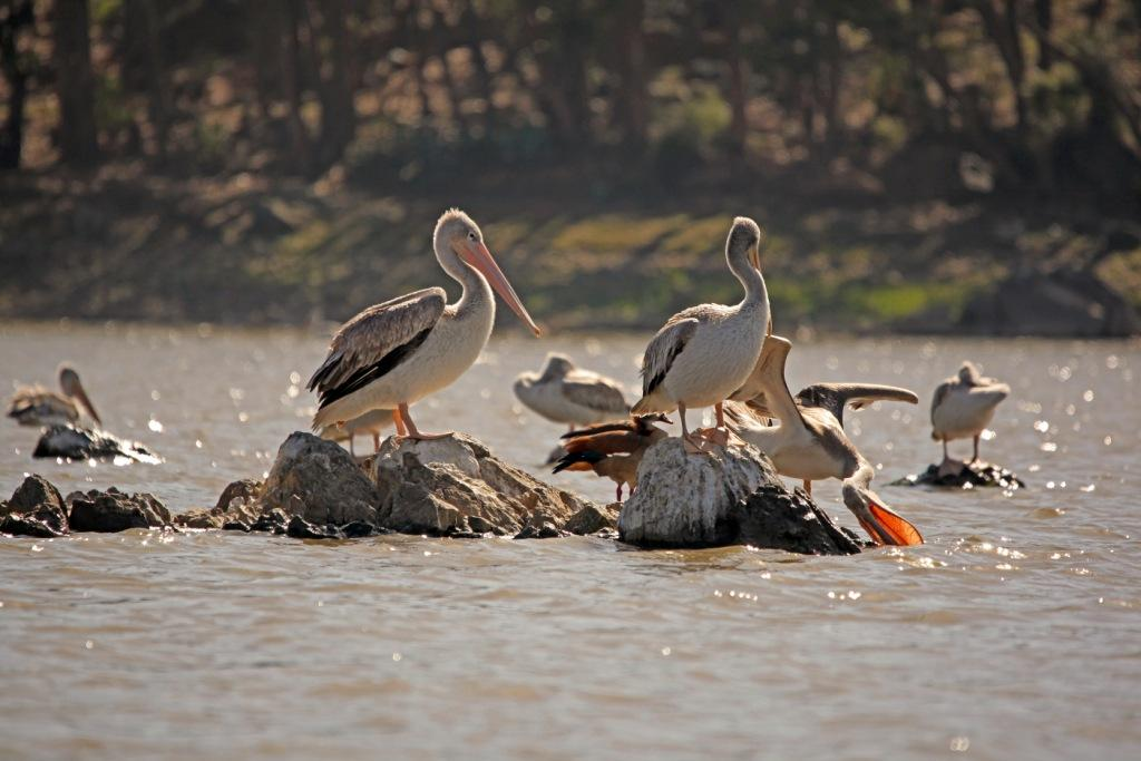 Eritrean bird - pelicans near Asmara